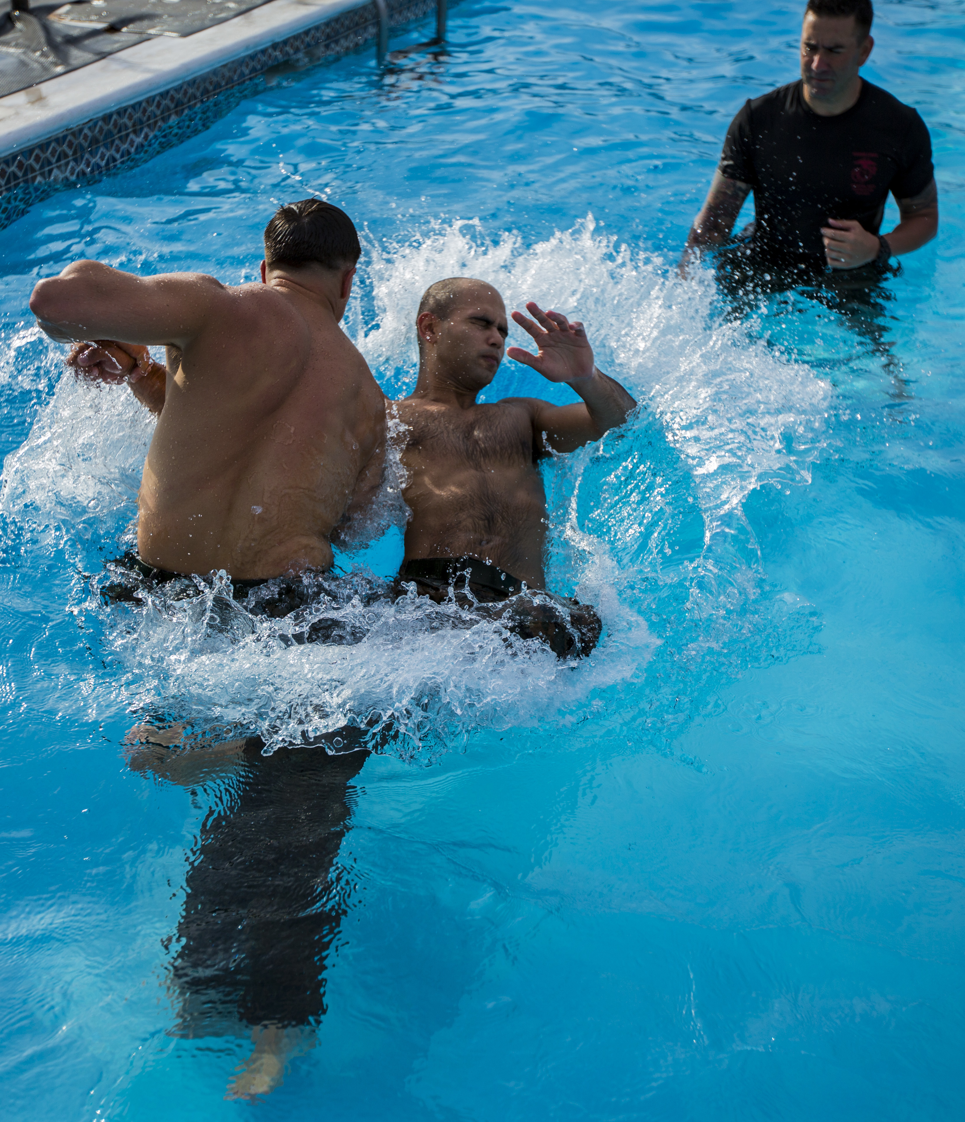 U.S. Marine Corps Capt. Jonathan Webber, left, a ground intelligence officer, practices his shoulder throw technique on 1st Lt. Ismael Rodriguez, a communications officer, while GySgt. Boyce Kerns, a second degree Martial Arts Instructor Trainer, supervises at Soto Cano Air Base, Honduras, Sept. 9, 2015. All three Marine are attached to Special Purpose Marine Air-Ground Task Force-Southern Command. SPMAGTF-SC is a temporary deployment of Marines and Sailors throughout Honduras, El Salvador, Guatemala, and Belize with a focus on building and maintaining partnership capacity with each country through shared values, challenges, and responsibility. (U.S. Marine Corps Photo by Cpl. Katelyn Hunter/Released) Unit: U.S. Marine Corps Forces, South